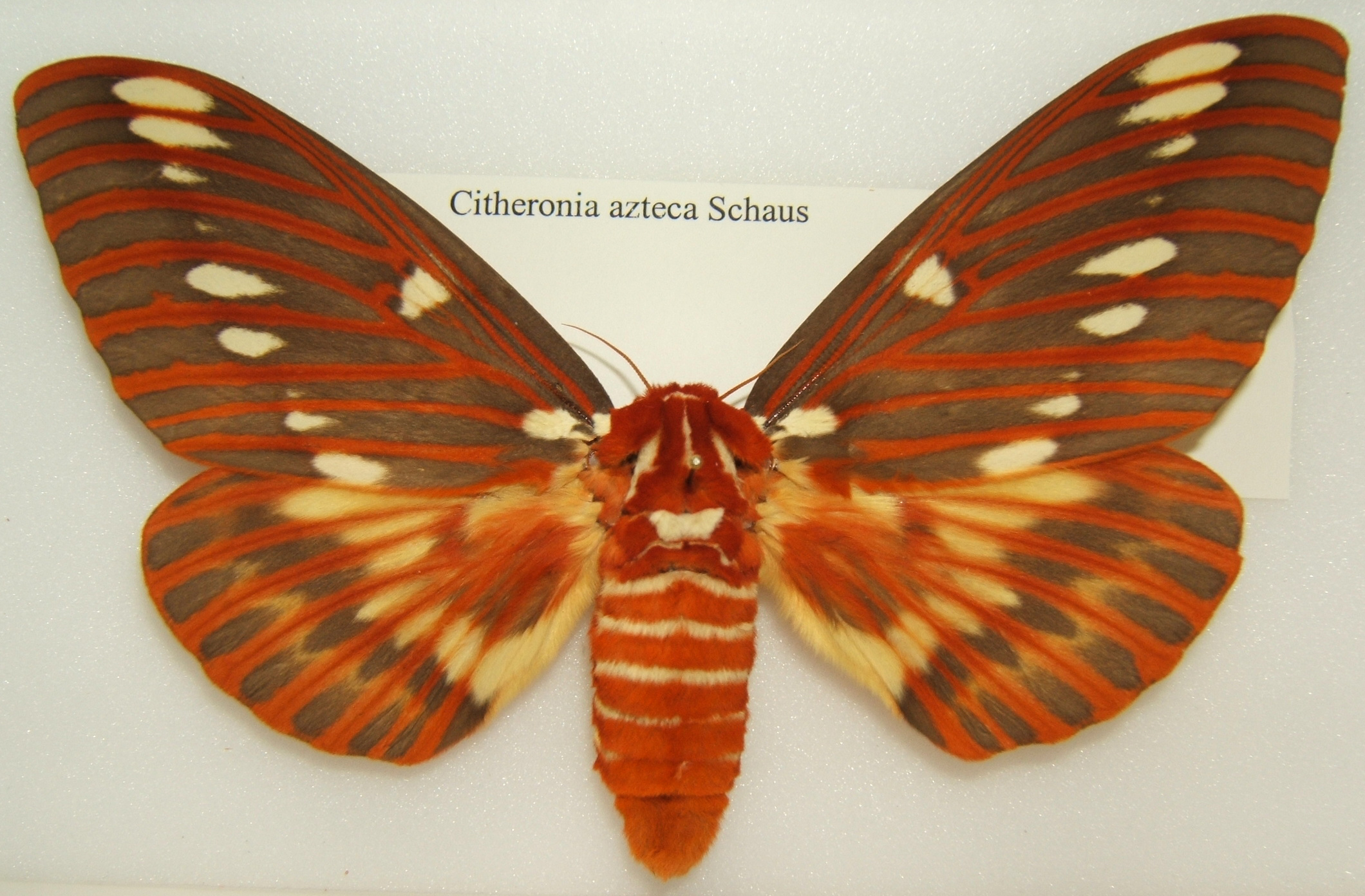 Citheronia azteca adult female taken by Shawn Hanrahan at the Texas A&M University Insect Collection in College Station, Texas.